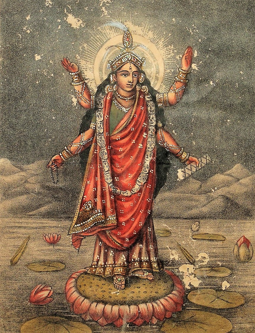 Goddess Bhairavi, One of the Mahavidya - Lithograph Print, c1880s